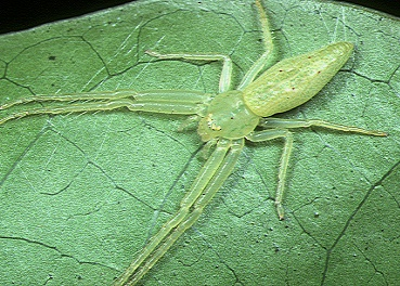 female Oxytate hoshizuna from Okinawa.